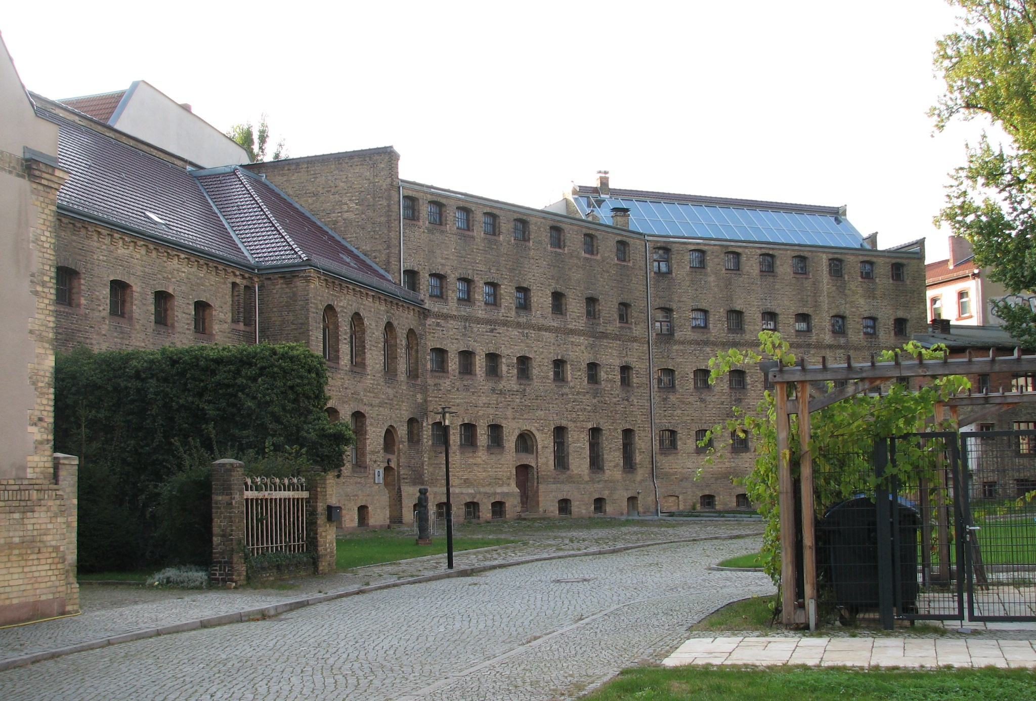 Courtyard of Mandrellaplatz 6, formerly used as a prison.